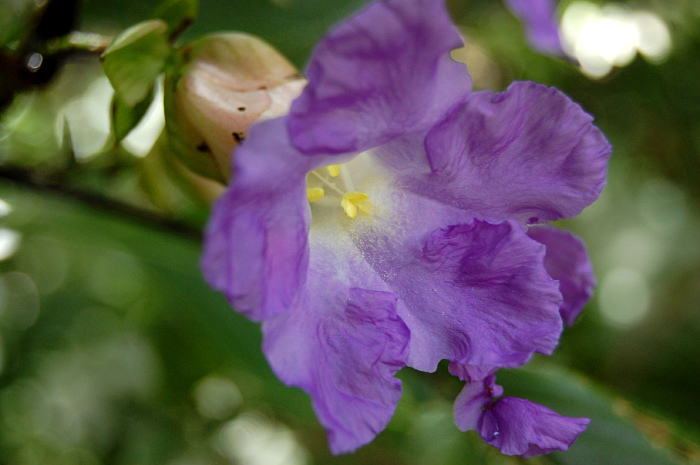 Flower of Strobilanthes callosus.